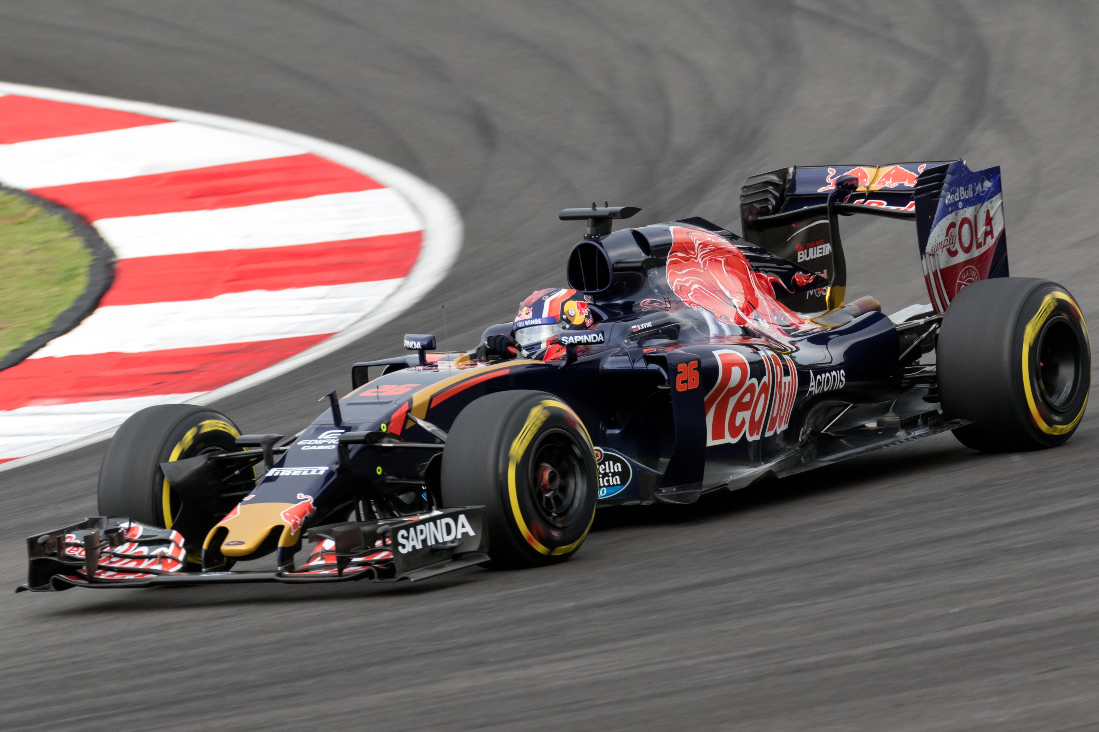 Formula One 2016 Rd.16 Malaysian GP: Daniil Kvyat (Toro Rosso)